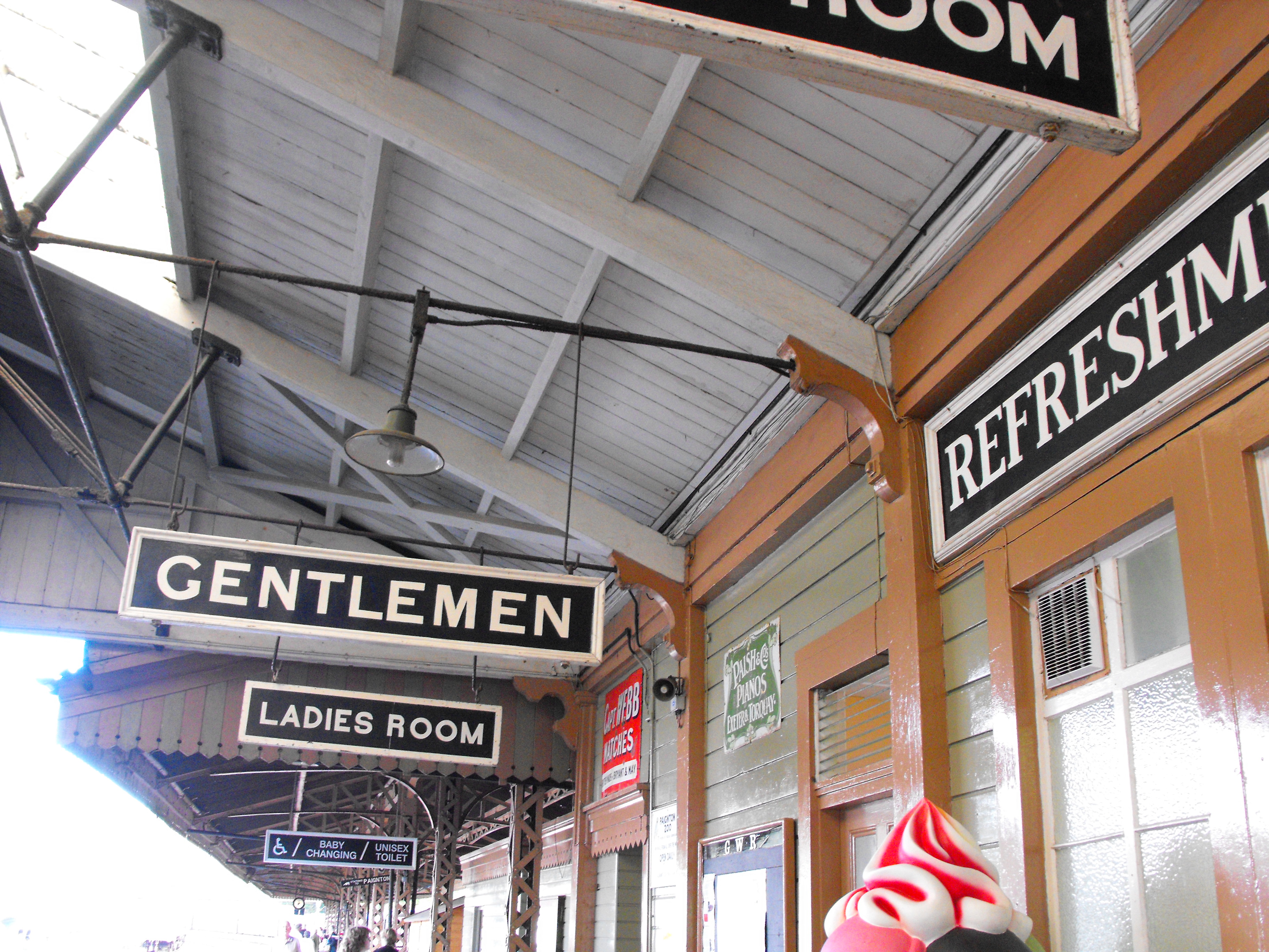 Dartmouth railway stationb